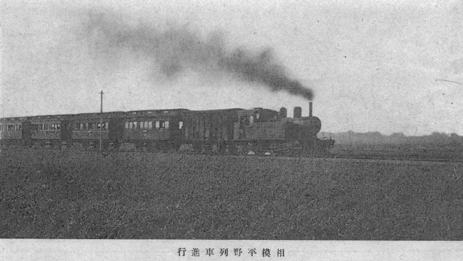 The train of the Jinchu Railway Co.,Ltd (current Sagami Railway Co.,Ltd) that runs through the Sagami Plain.